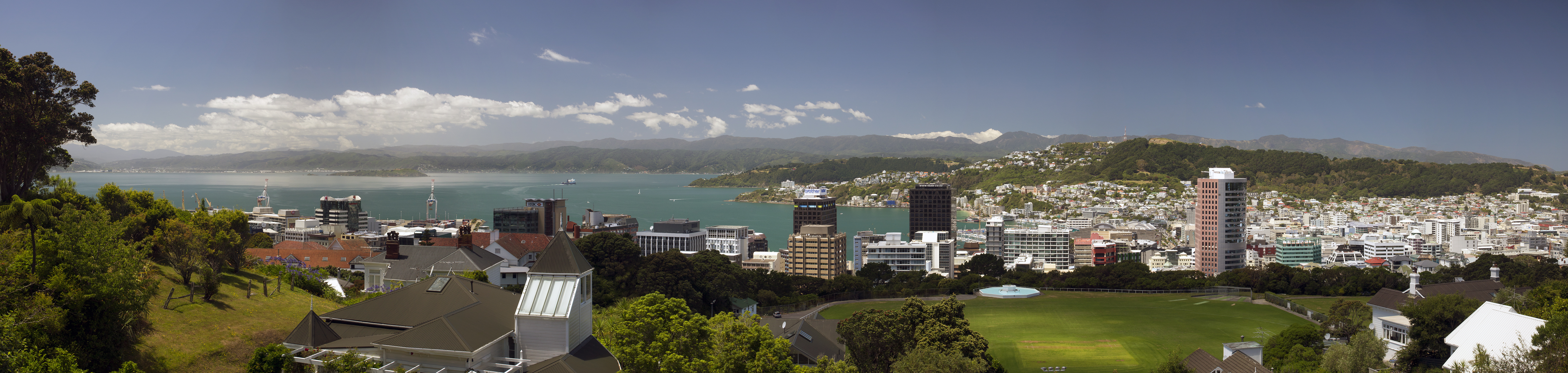 Wellington city panorama from Cable Car